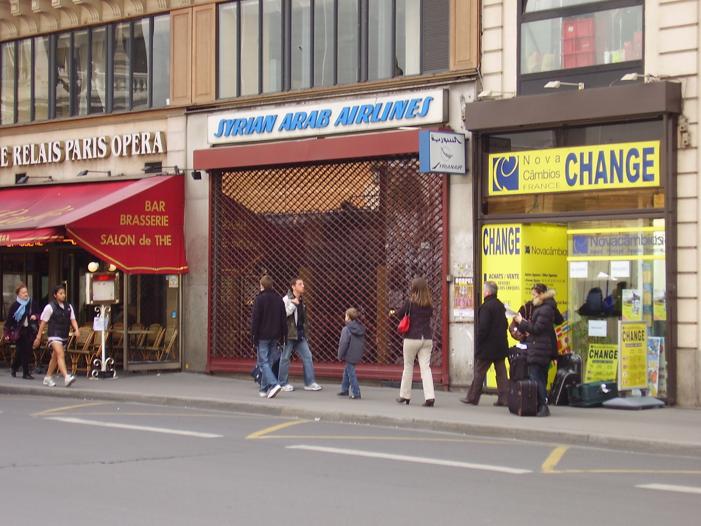 Syrian Arab Airlines office, 1 Rue Auber, 9th arrondissement, Paris